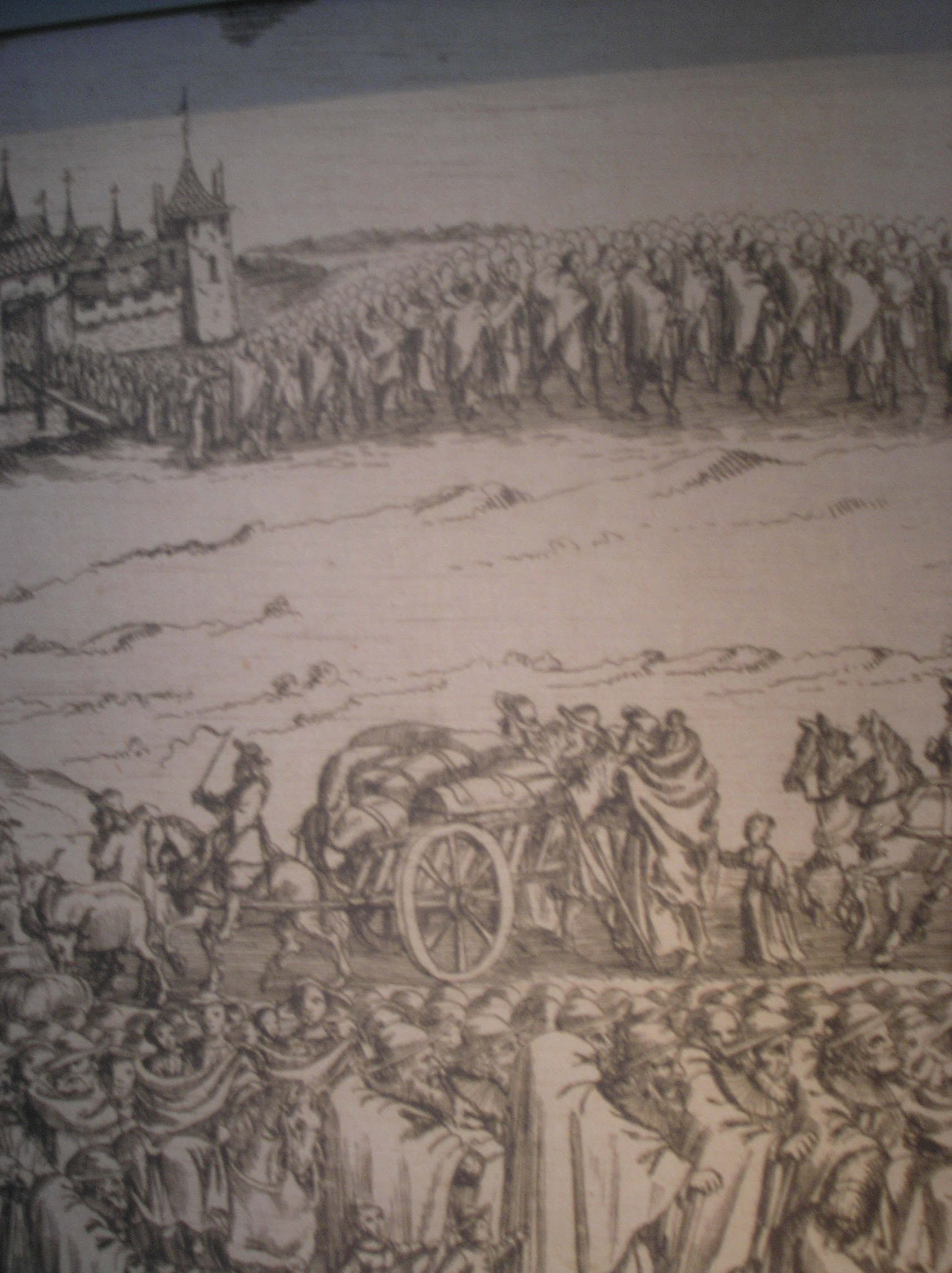 Jews Exiled from Vienna 1670 in the Jewish Museum, Berlin. The Ghetto marked in yellow.